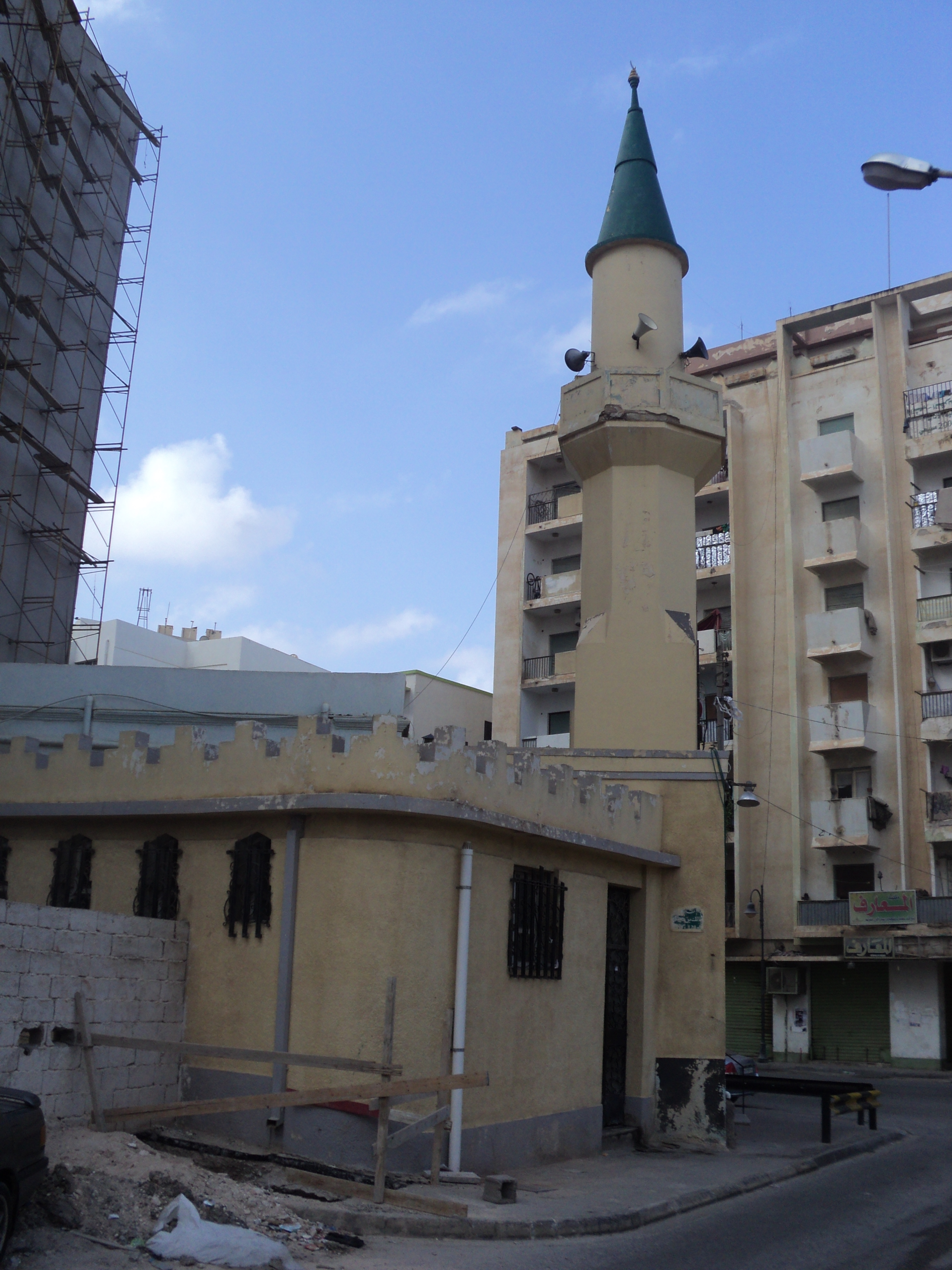 A mosque in Berka neighborhood (Jaafar as-Sadiq) Benghazi, Libya. This mosque is popularly known as Hadiya Mosque (جامع هدية). Hadiya Mosque was built in the 19th century during Ottoman times and is one of the oldest mosques in Benghazi.